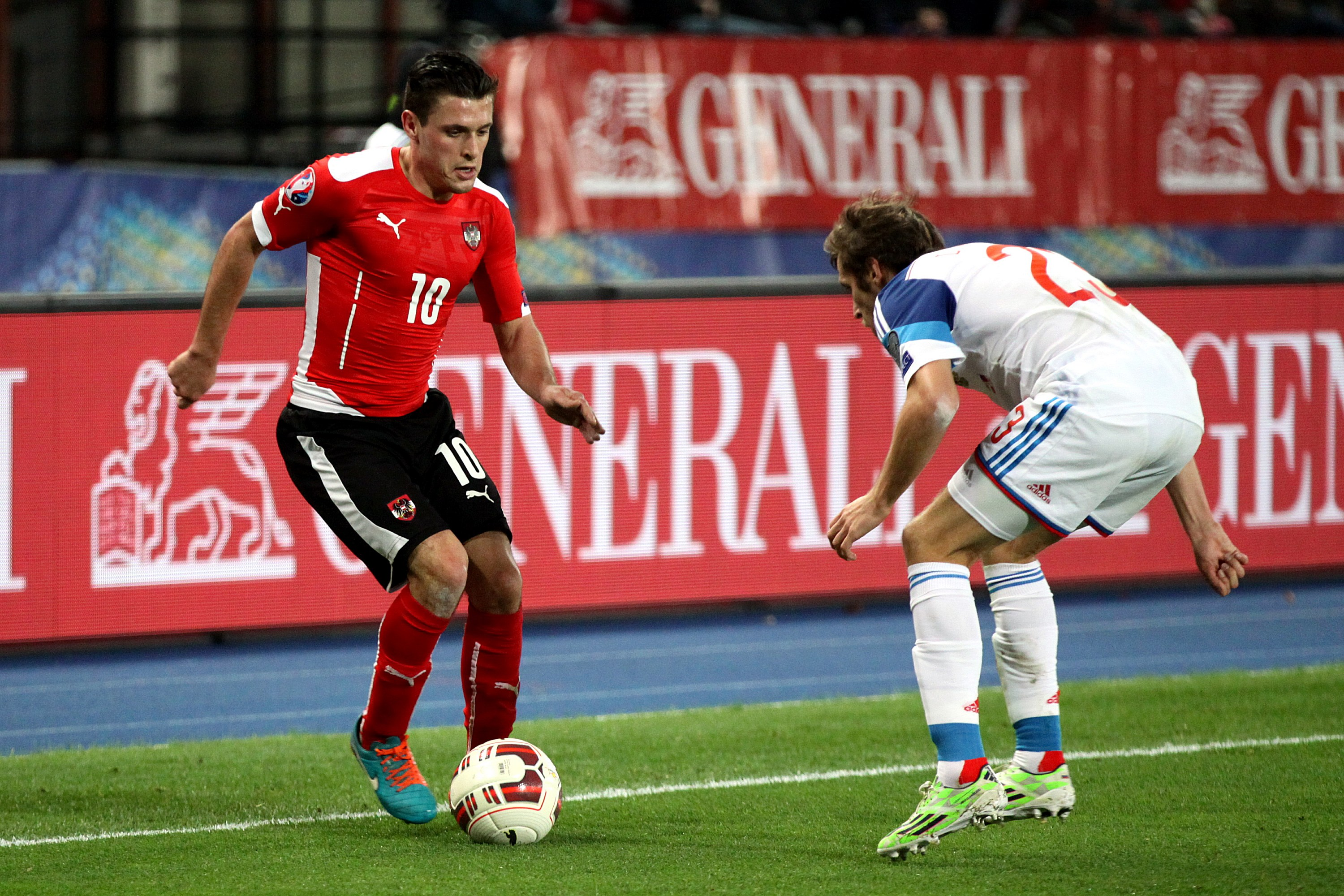 UEFA Euro 2016 qualifying: Austria vs. Russia (1:0 / 0:0) at 2014-11-15 in the Ernst-Happel-Stadion in Vienna. – The photo shows Zlatko Junuzović (Austria, red shirt) in duel with Dmitriy Kombarov (Russia).